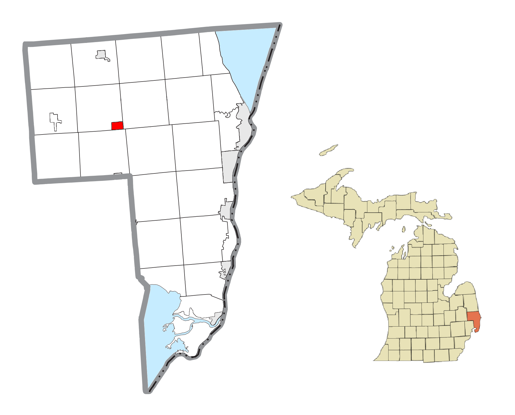 Emmett (village), MI